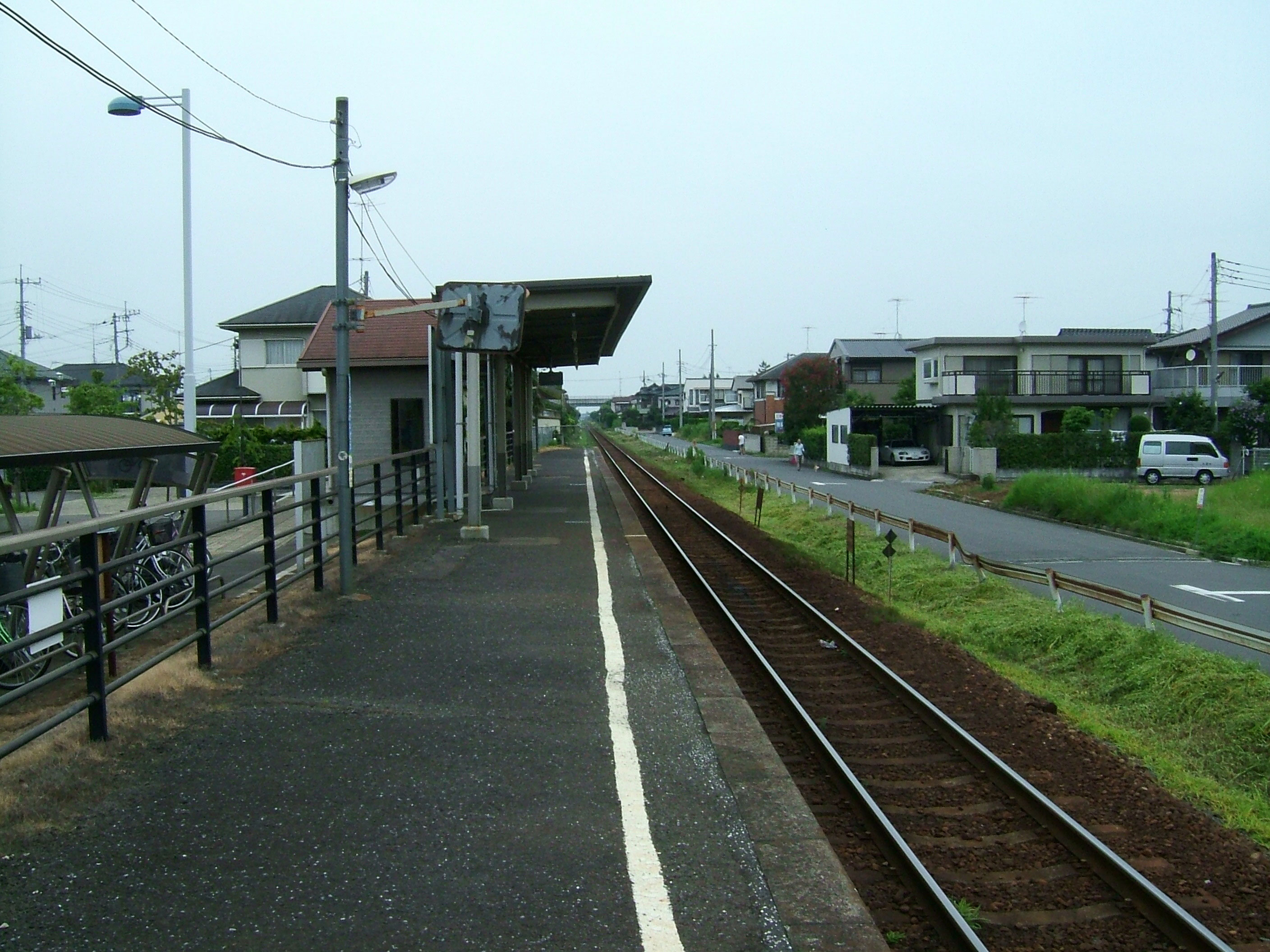 Kita-Mitsukaido Station platform (Kanto Railway Jōsō Line)